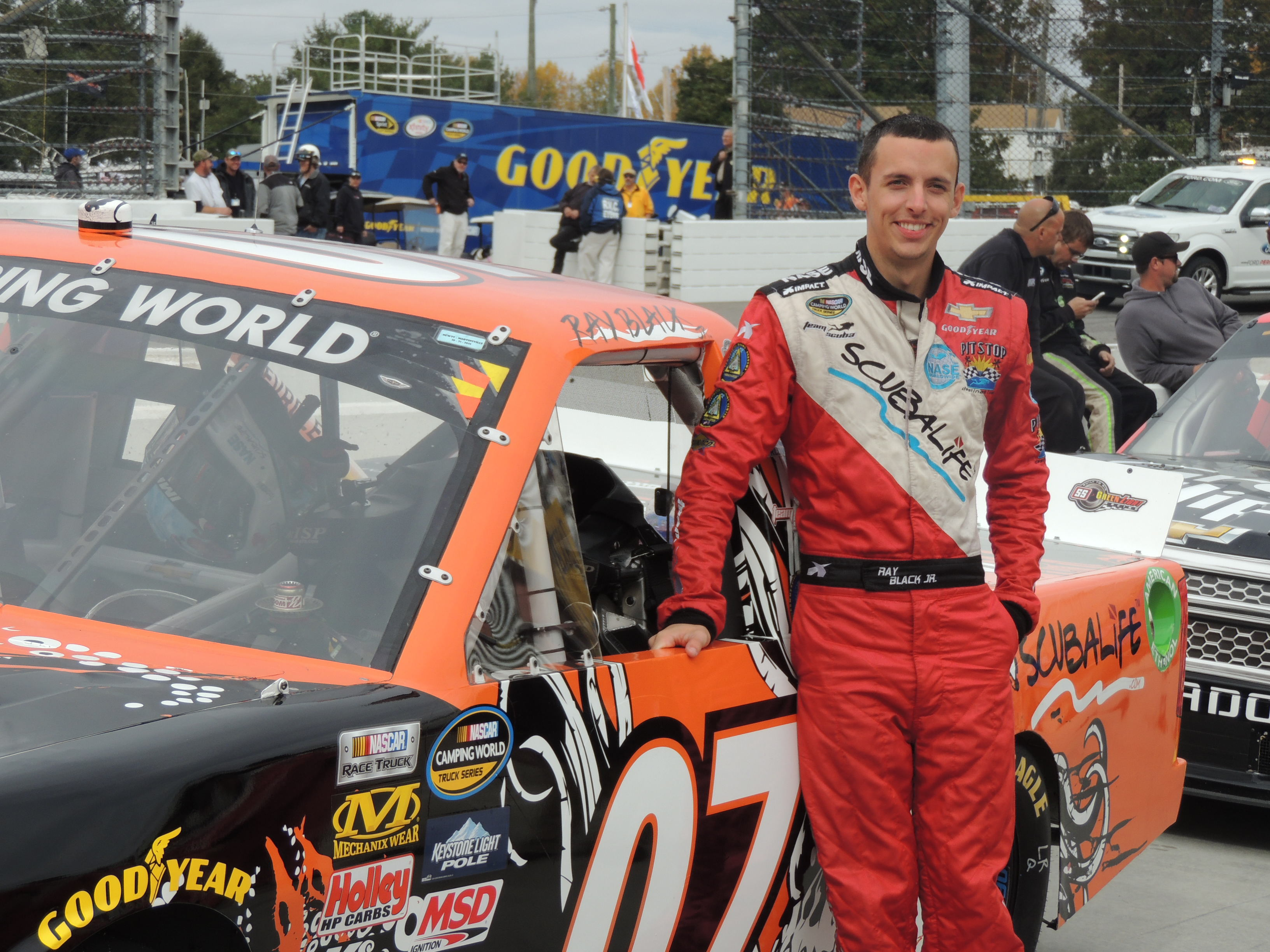 Ray Black Jr. at Martinsville Speedway in 2015